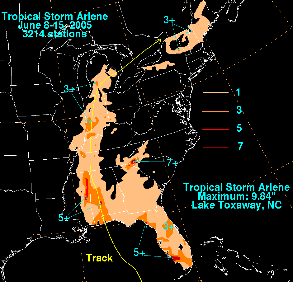 Rainfall produced by Tropical Storm Arlene during June 2005.